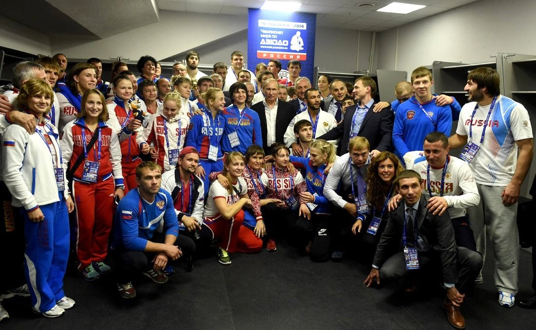 2014 World Judo Championships